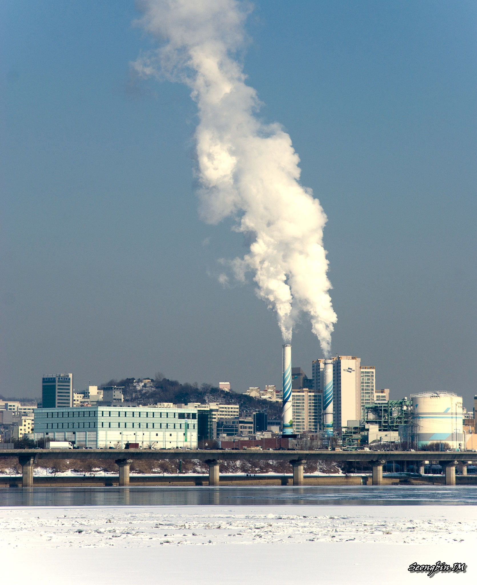 Cogeneration Power Plant (열병합발전소)